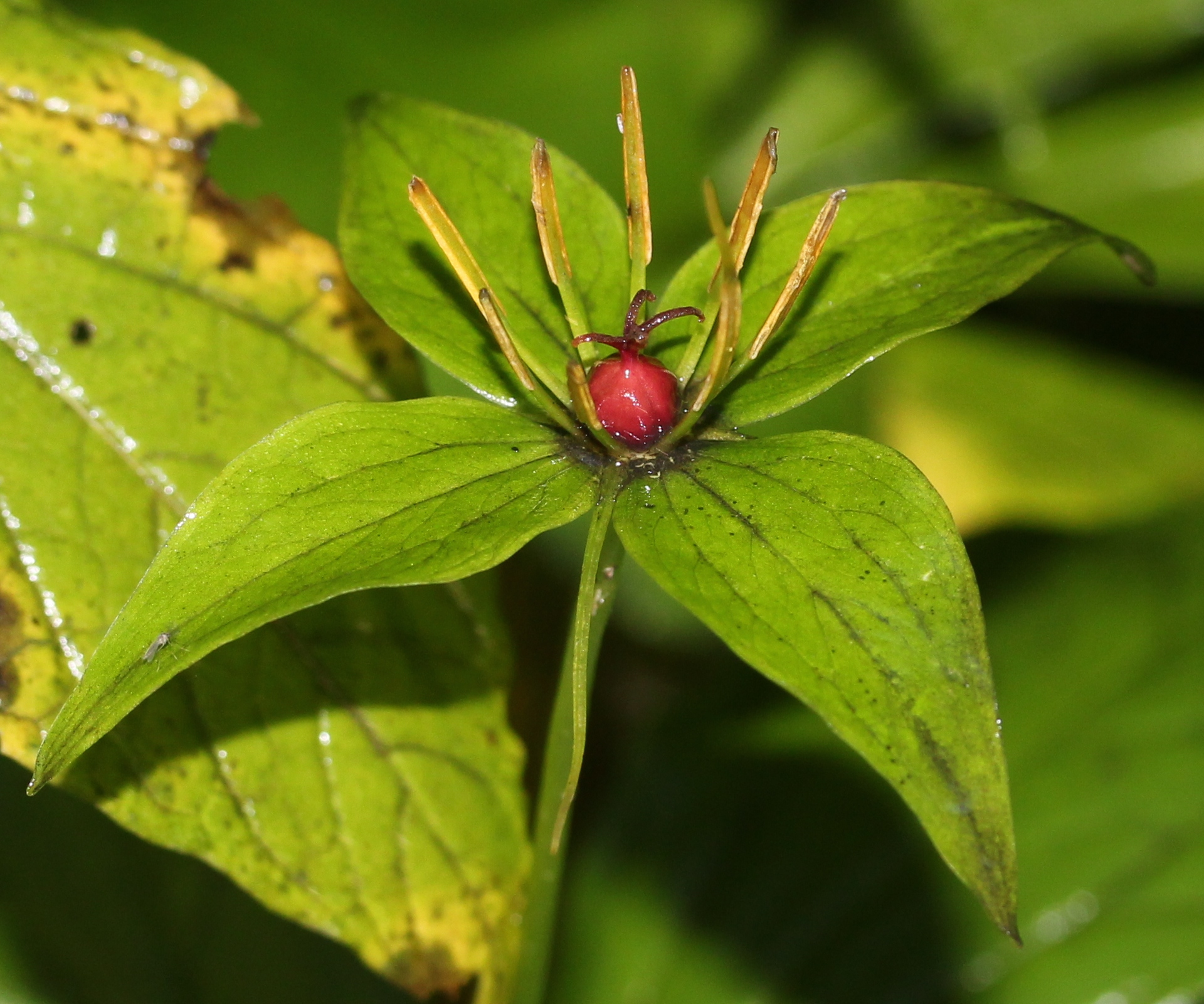 Paris verticillata, in Mount Chō, Hida Mountains, Azumino, Nagano prefecture, Japan.